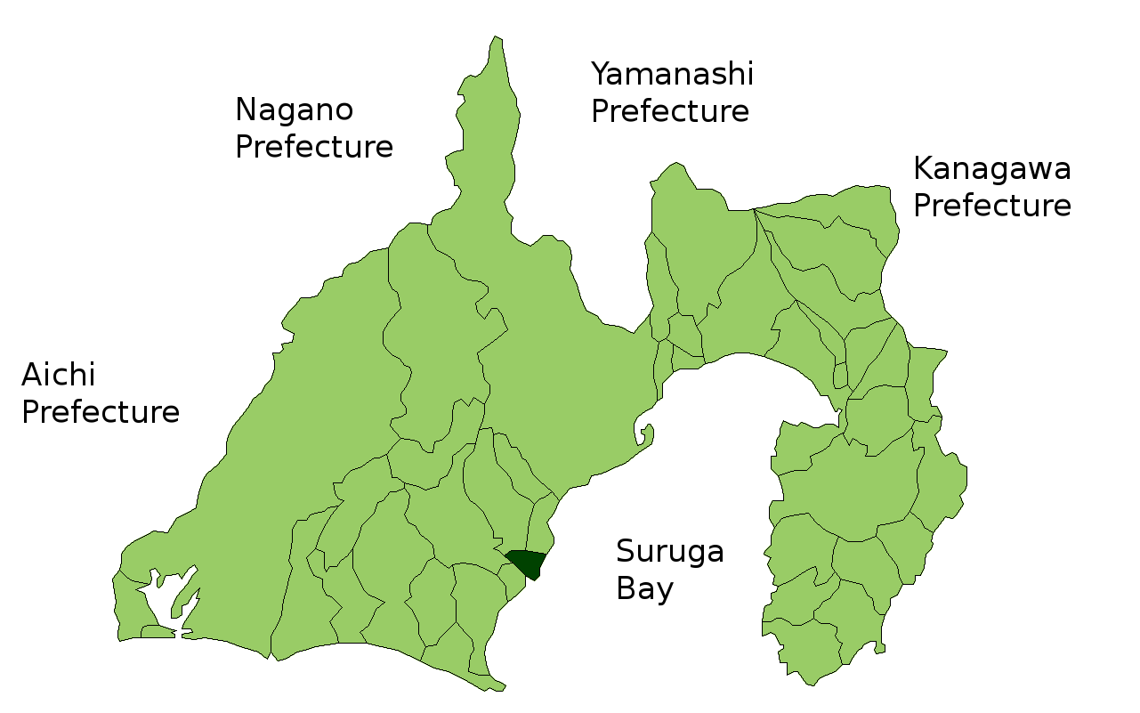 The location of Oigawa in Shizuoka Prefecture, Japan